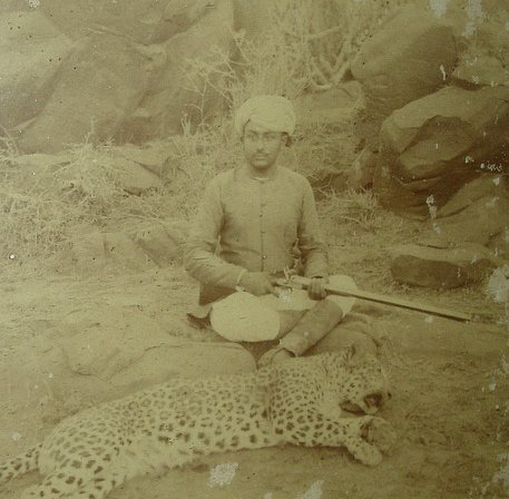 Maharao Shree Khengarji III of Kutch